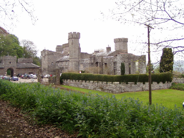 Maeslwch castle. Home of the De Wintons